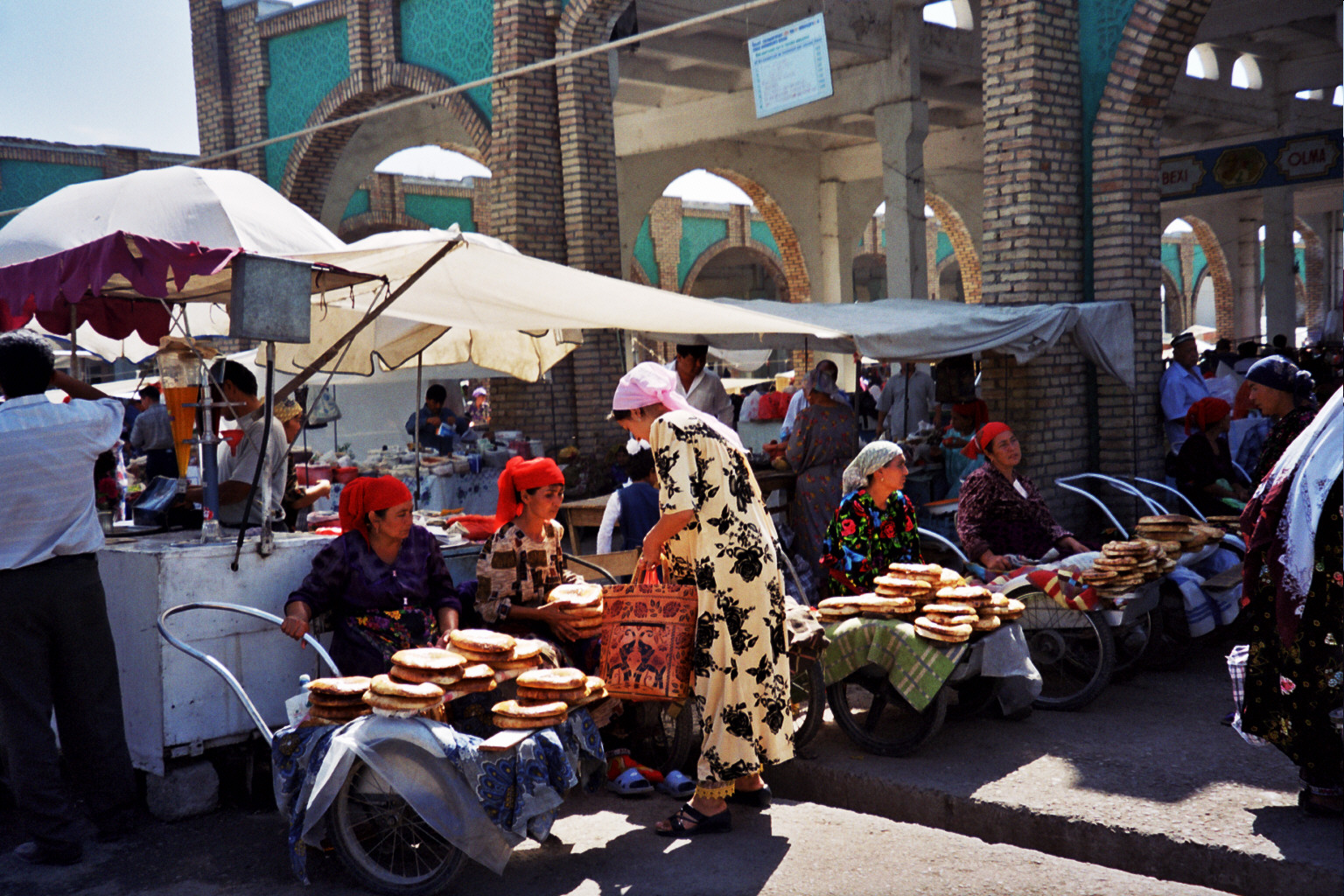 bread sellers with their traditional flat round loaves of uzbek bread